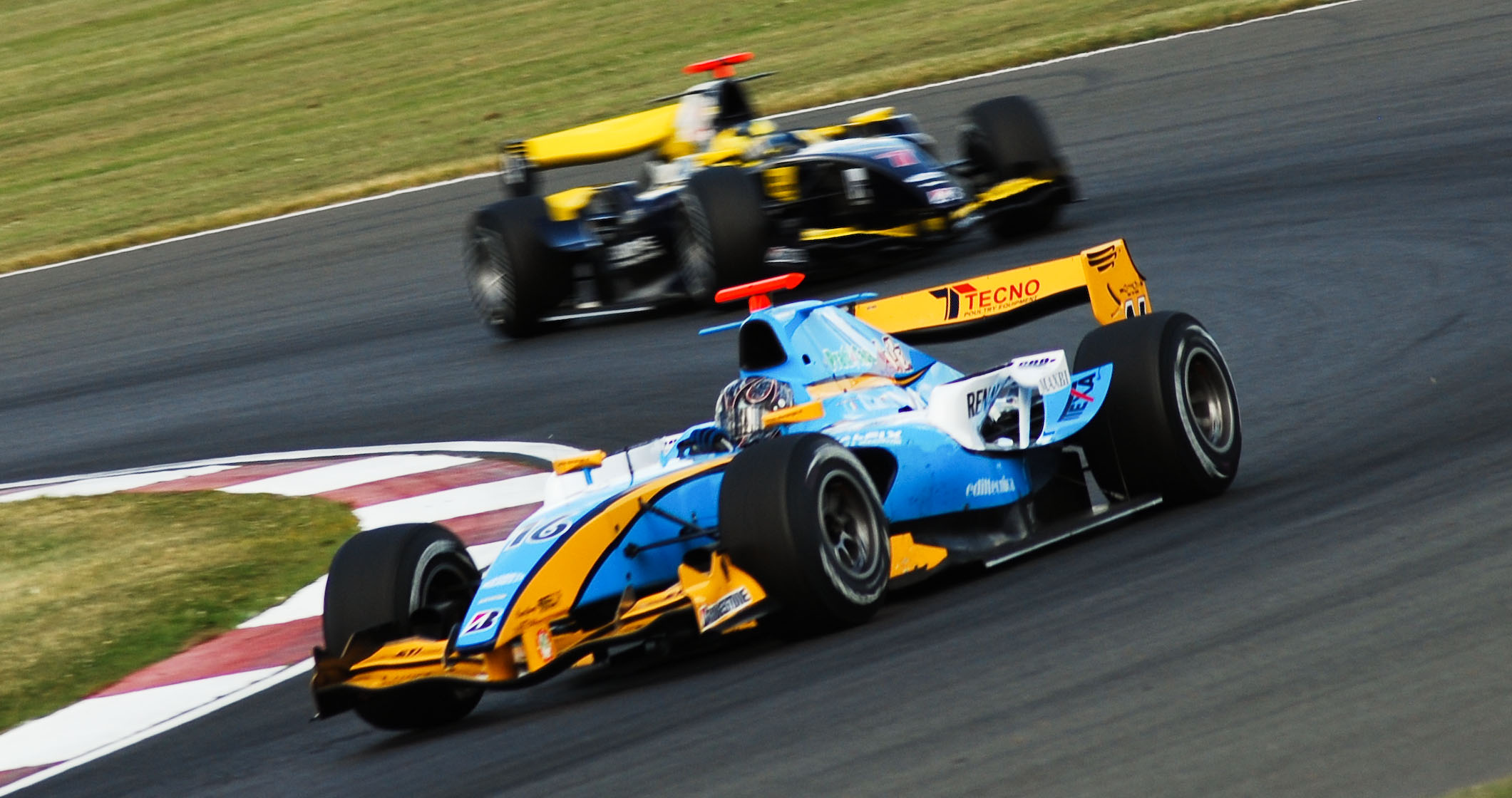 Davide Valsecchi (Durango) and Christian Bakkerud (Super Nova) at the Silverstone round of the 2008 GP2 Series season.